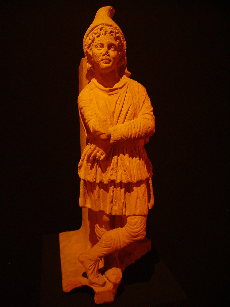 Youth in an Oriental Scythian suite, fragment of a Roman table from the 2nd century BC. Exposed at National Museum of Warsaw from April 15th to June 29th 2008 on a temporary exhibition titled "Ukraine to the world. Treasures of Ukraine from the Platar collection"